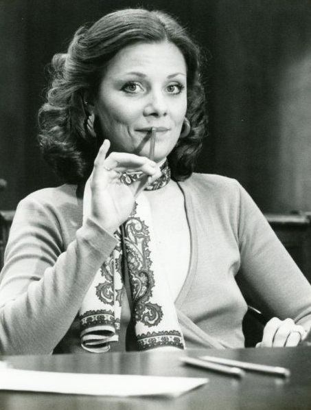 press photo of Jane Elliot on Rosetti and Ryan in 1977